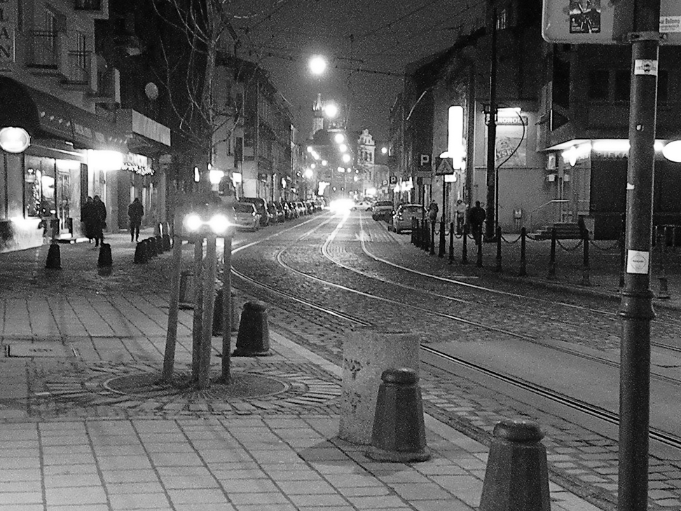 Zwierzyniecka Street at night